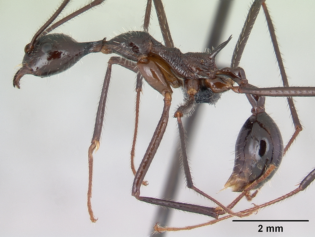 Profile view of ant Aphaenogaster gonacantha specimen casent0107566.